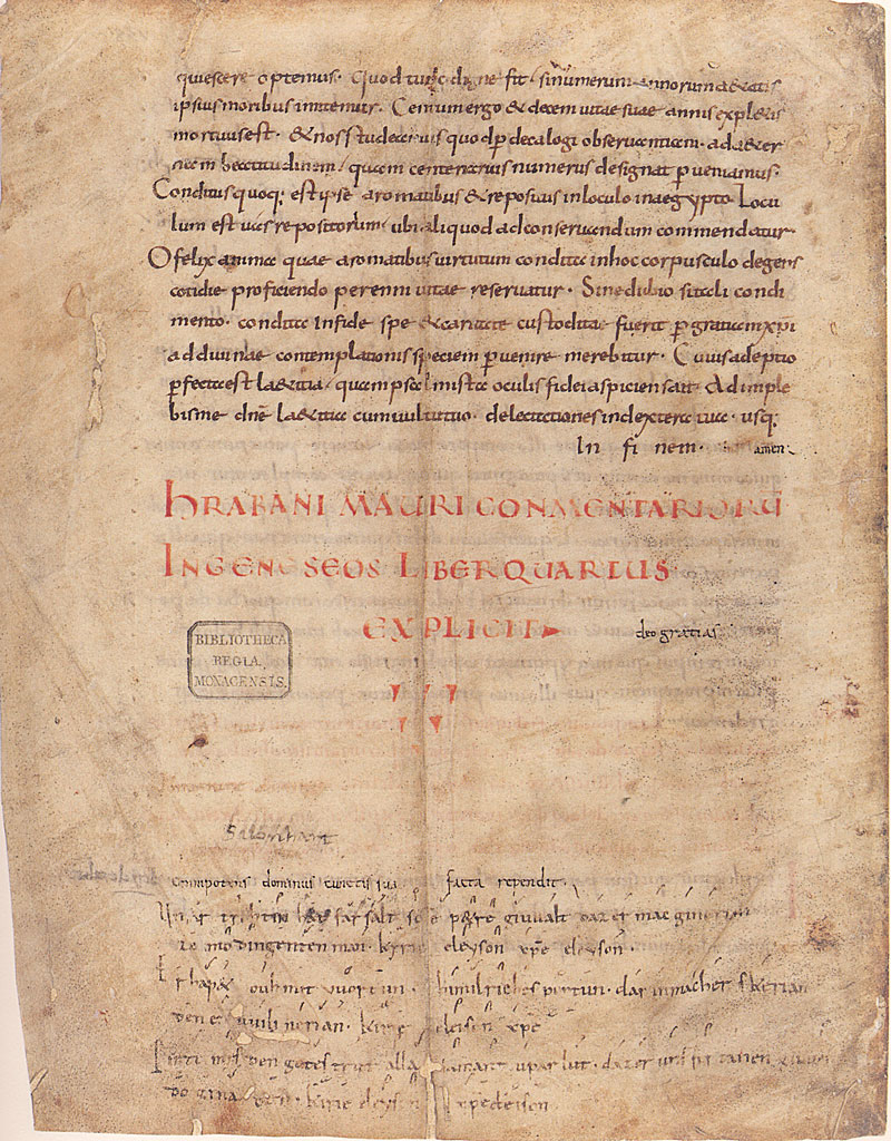 The song of Saint Peter from Freising, an Old Bavarian text from around 880 AD and the oldest song in any Old High German idiom. The song is the lower part of the page.